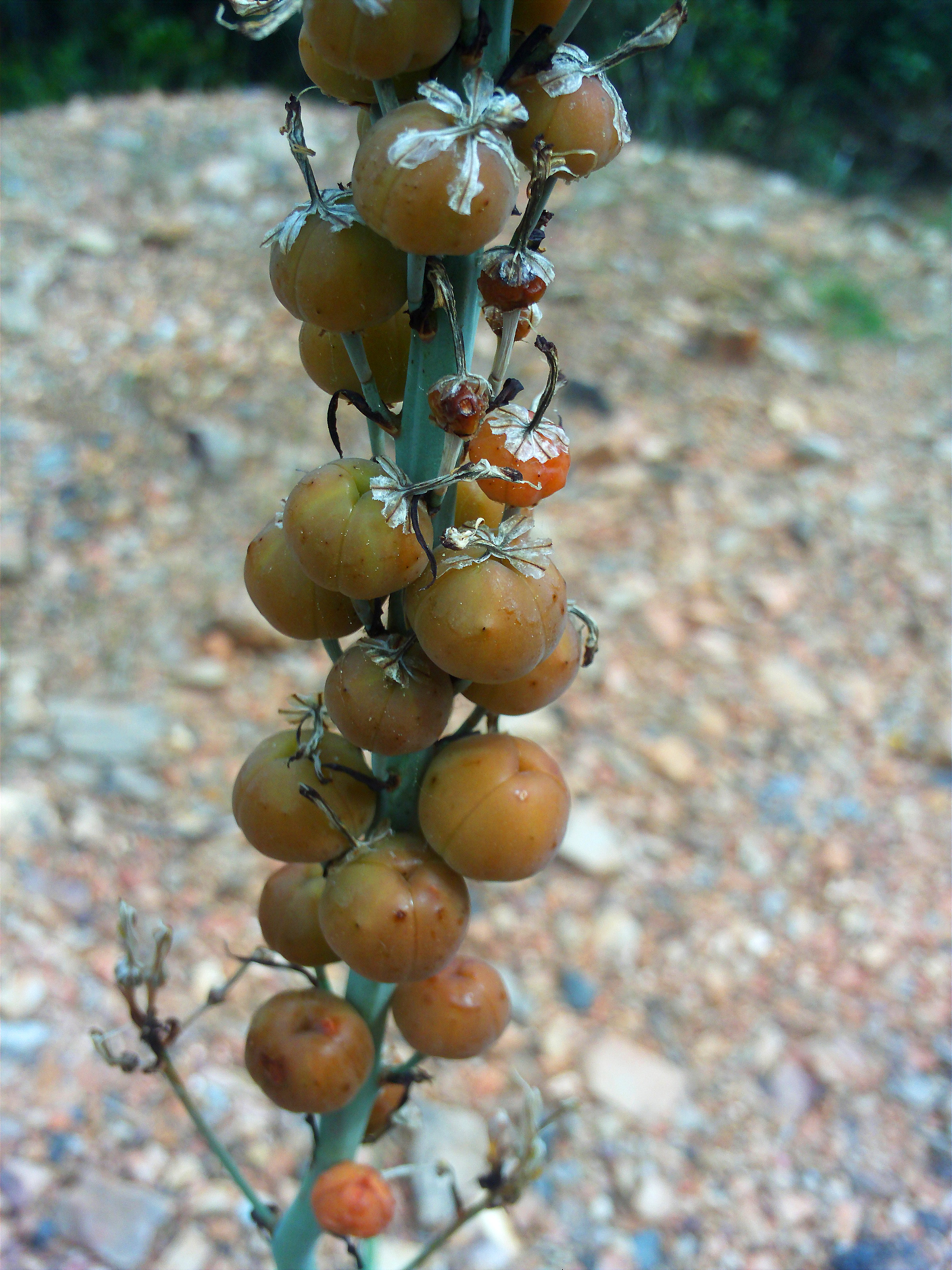 Asphodelus cerasiferus fruits closeup, Sierra Madrona, Spain